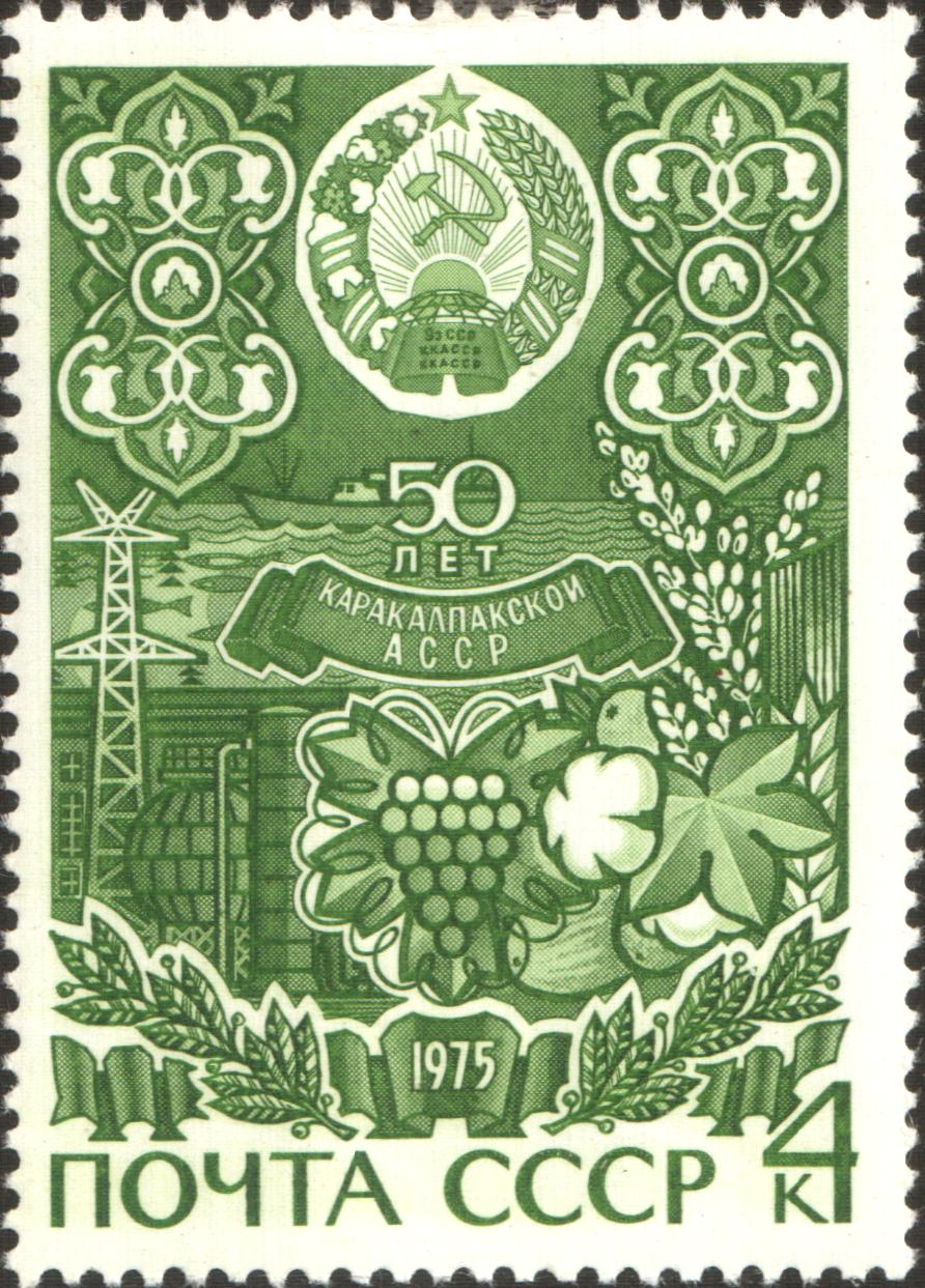 USSR stamp: Karakalpak Autonomous Soviet Socialist Republic (Established on 1925.02.16). Series: 50th Anniversary of the Autonomous Republics of the Soviet Union